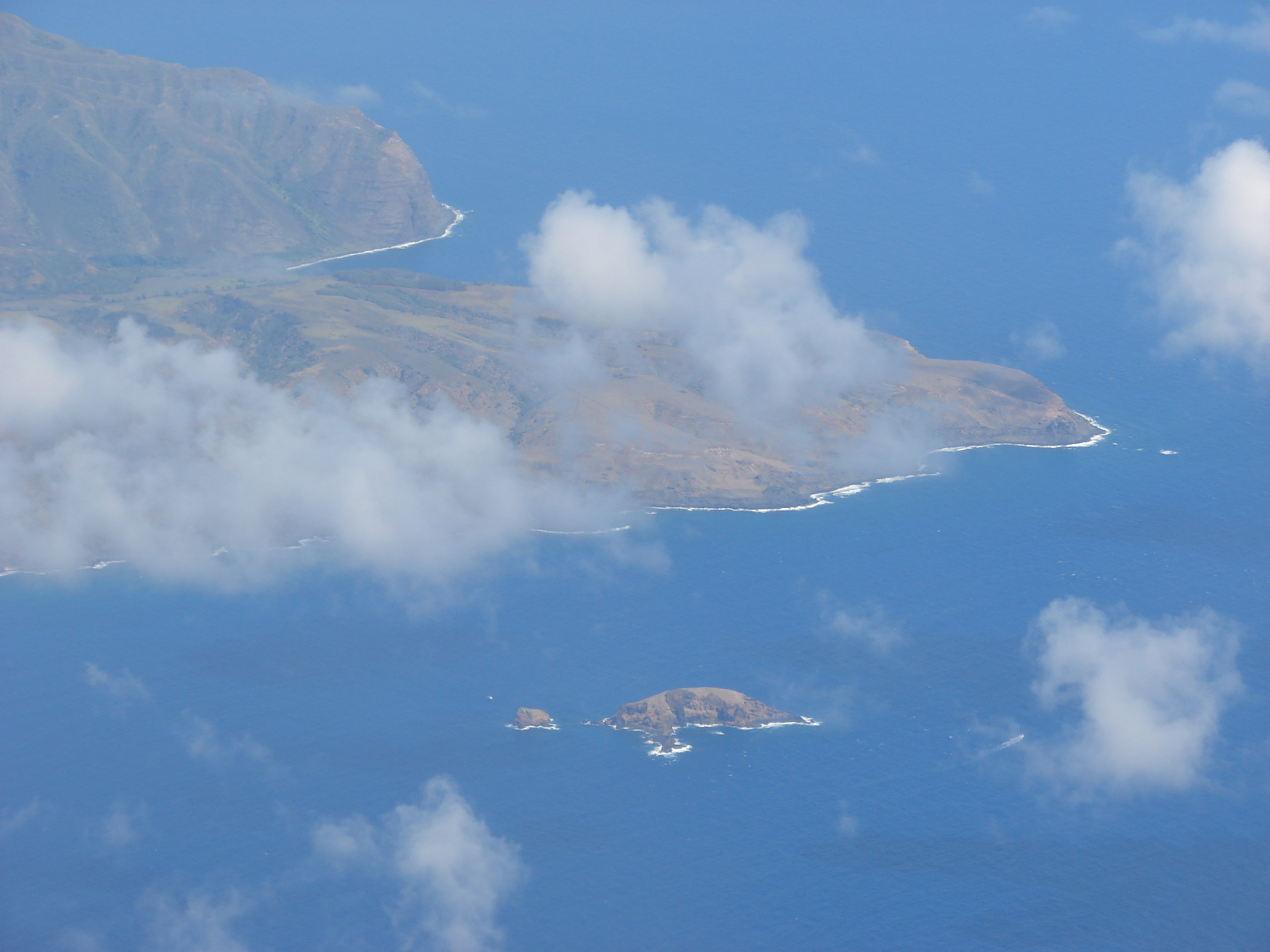 Melanthera integrifolia (habitat aerial image). Location: Molokai, Mokuhooniki and Kanaha Rock